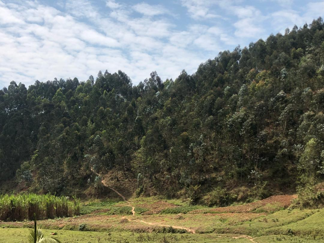 Beautiful Nature